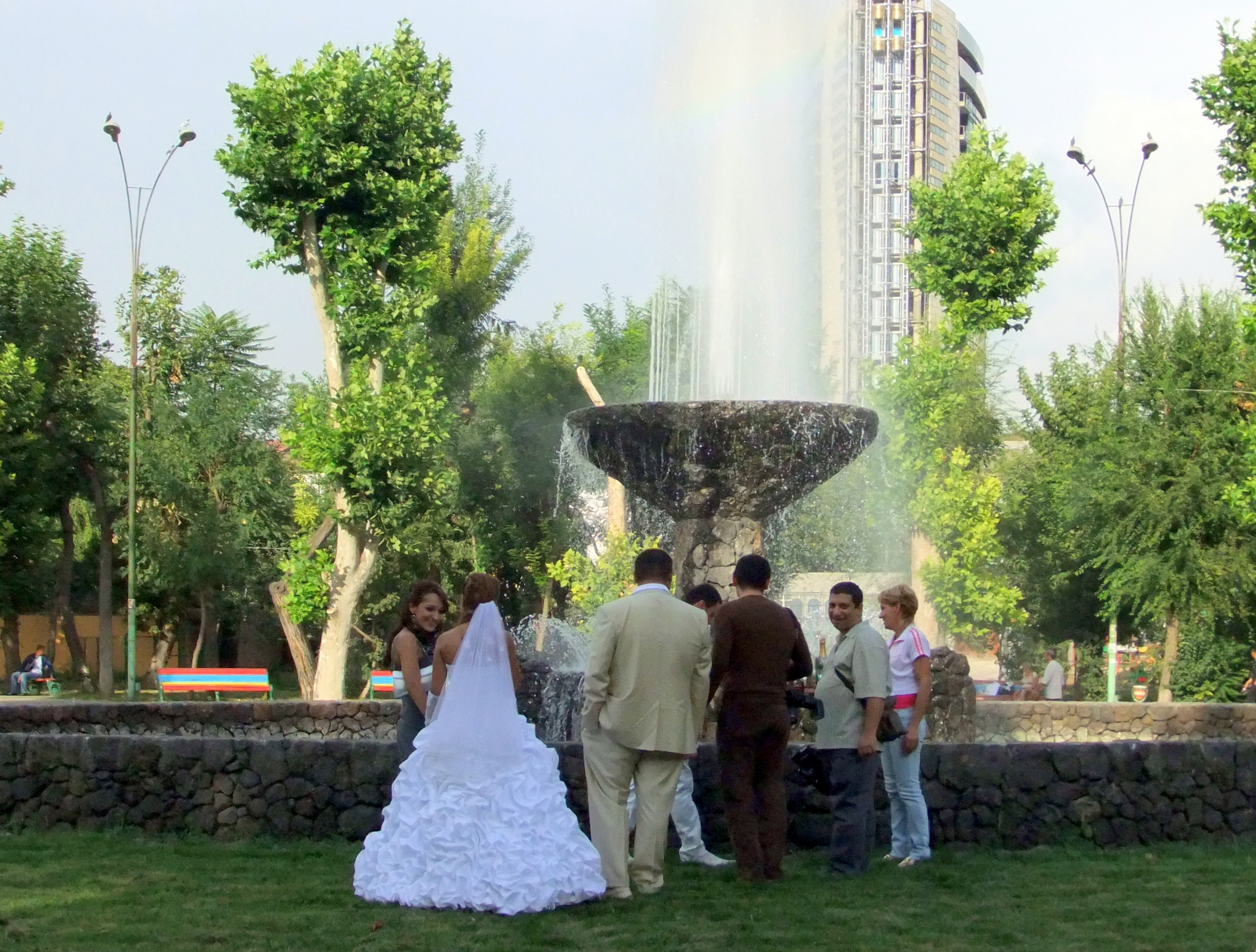 Armenia - Day 1 - 18 September 2010. The English Park in Yerevan appears to be a popular spot for wedding photographs. There were three separate Bs & Gs wandering around being photo'd and filmed.